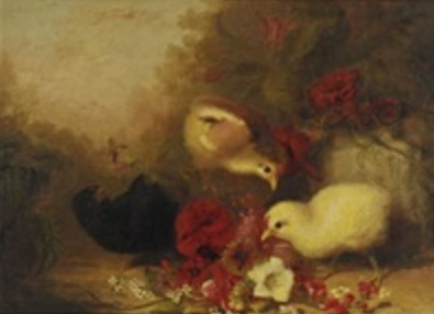 Mary Russell Smith (1842-1878), Springs Bounty. The Mary Smith Prize was established by her father William Thompson Russell Smith in her honor at the Pennsylvania Academy of the Fine Arts.